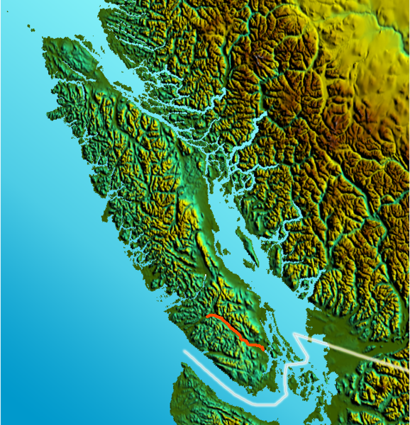 based on 578px-Vancouver_Island-relief.png which is in Wikimedia Commons